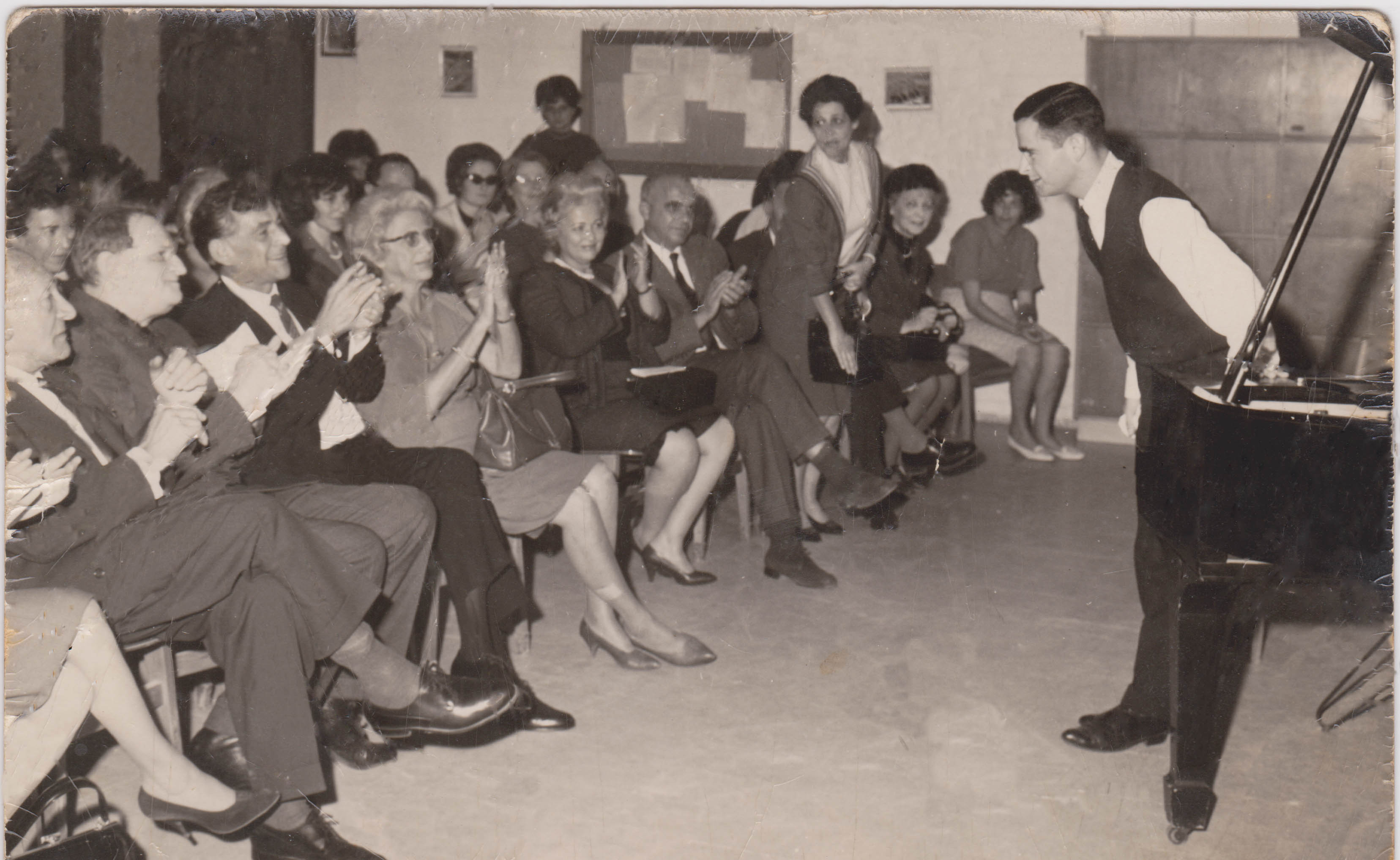 Leonard Bernstein applauding teenager Rami Bar-Niv after a recital at Ron Shulamit in Tel-Aviv, Israel. On his right (left in the photo) Ödön Pártos